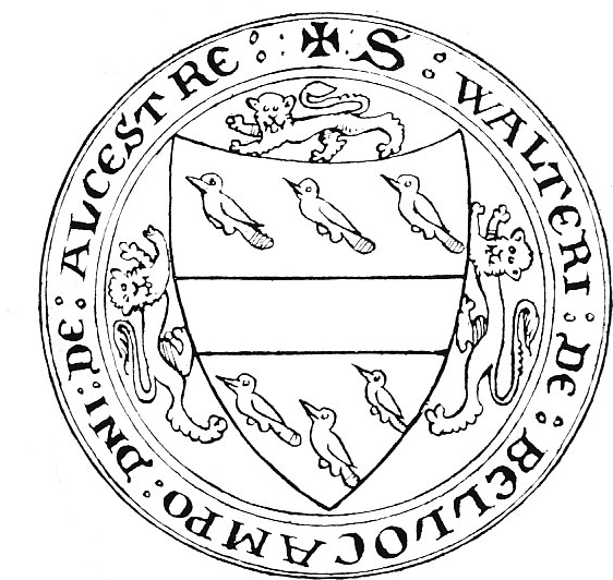 1611 Drawing by Nicholas Charles, Lancaster Herald, of seal (A Exemplar) of Walter de Beauchamp (d.1303) "Lord of Alcester" in Warwickshire, used to seal the Barons' Letter of 1301 to the pope, which he signed as Walt(er)us de Bello Campo, D(omi)n(u)s de Alcestre ("Walter de Beauchamp, Lord of Alcester"). He was Steward of the Household to King Edward I from 1289-1303. Another of the signatories was his nephew Guy de Beauchamp, 10th Earl of Warwick (c.1272-1315). His descendant was John Beauchamp, 1st Baron Beauchamp (d. 1475) "of Powick" in Worcestershire. He was the younger son of William III de Beauchamp (c. 1215 – 1269) of Elmley Castle in Worcestershire, hereditary Sheriff of Worcestershire and was the younger brother of William de Beauchamp, 9th Earl of Warwick (c.1238-1298). Arms: Gules, a fess between six martlets or, a difference of the senior line of Beauchamp of Elmley, Earl of Warwick.